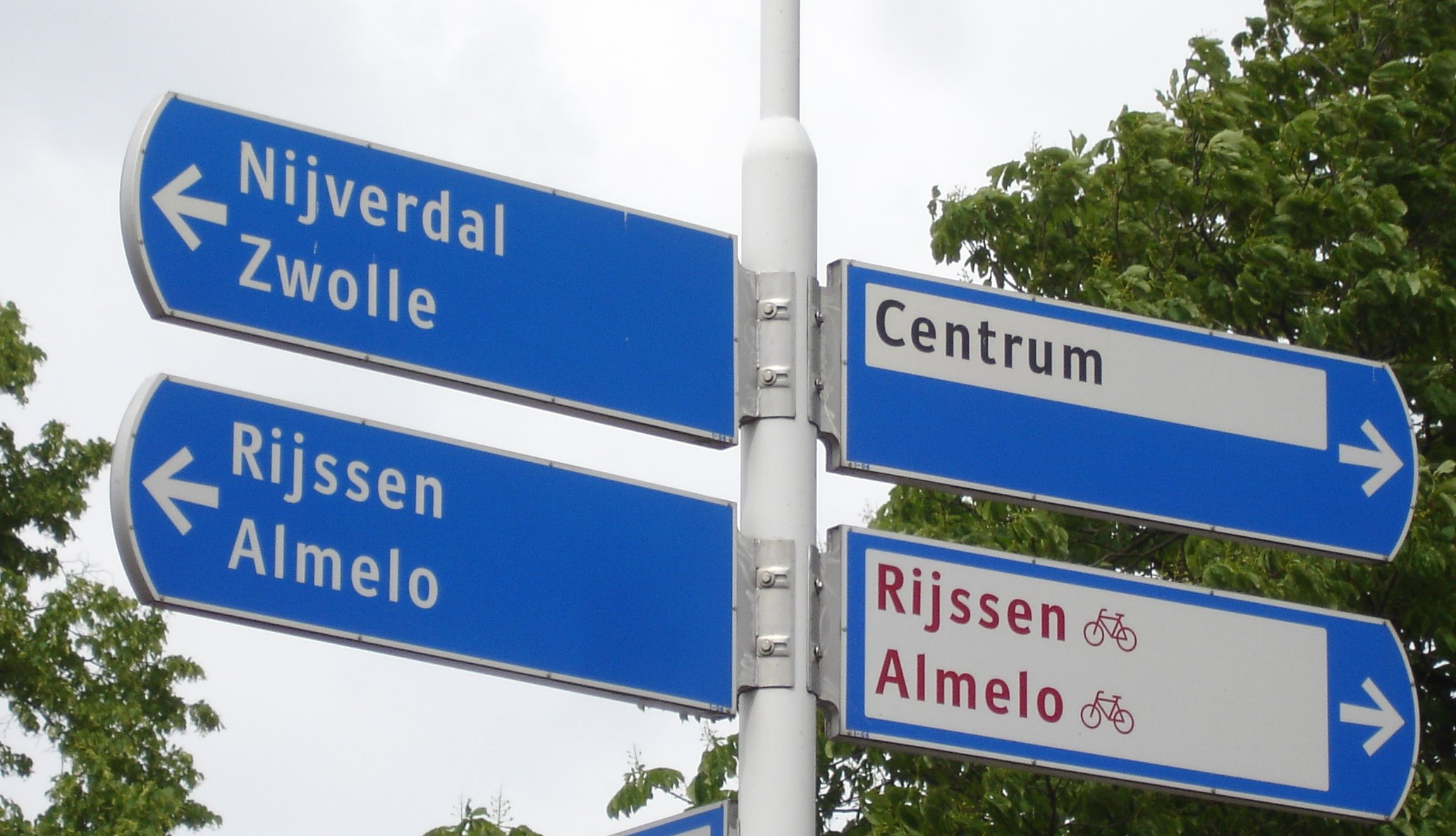 Dutch signpost without symbols